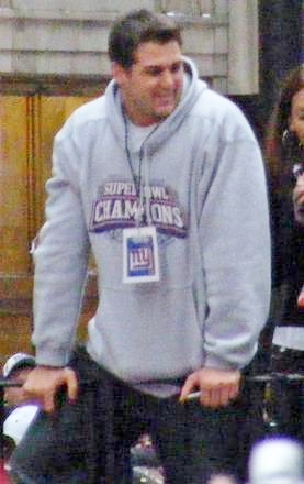 Zak DeOssie at the Giants parade in Manhattan the Tuesday following the Giants victory in Super Bowl XLII.